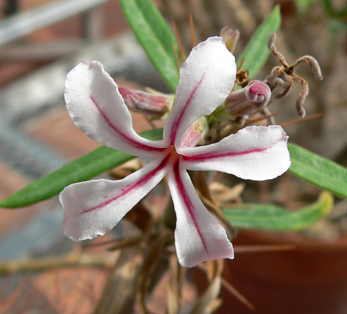 Pachypodium succulentum at the University of California Botanical Garden, Berkeley, California